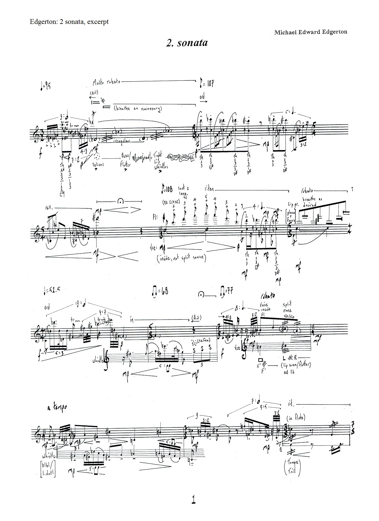 Michael Edward Edgerton_#86_2 sonata, for alto flute_page 1